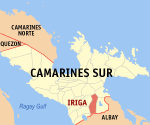 Map of Camarines Sur showing the location of Iriga